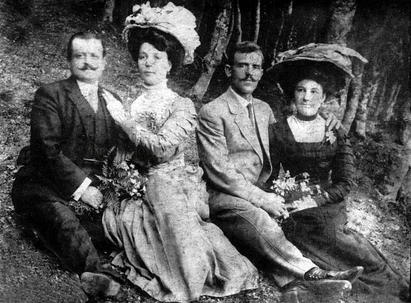 Greek Macedonians Kyriakos Liakos(Κυριάκος Λιάκος) and Phokion Bouklis(Φωκίων Μπούκλης) from Kruševo(Κρούσοβο), together with their wives in the countryside. Грците во Крушево Македонија